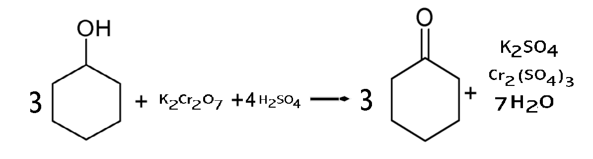 Cyclohexanone synthesis from cyclohexanol